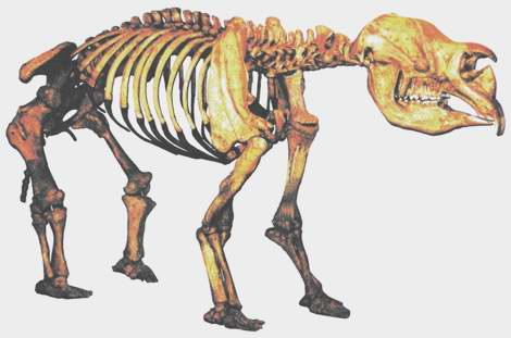 Photo of a cast of a composite Diprotodon skeleton excavated from Lake Callabonna, and on display at the Queensland Museum